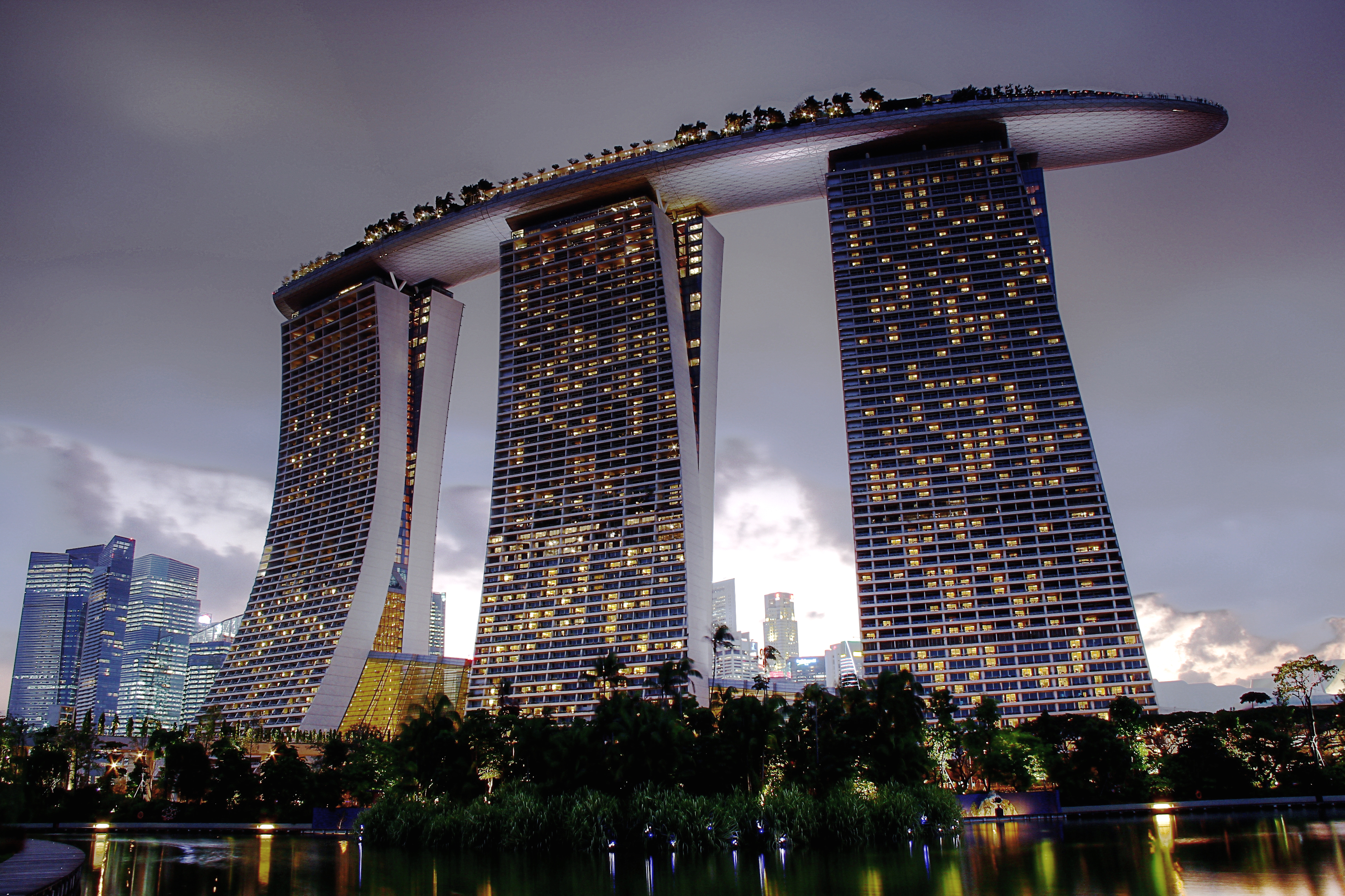 view of MBS from the gardens